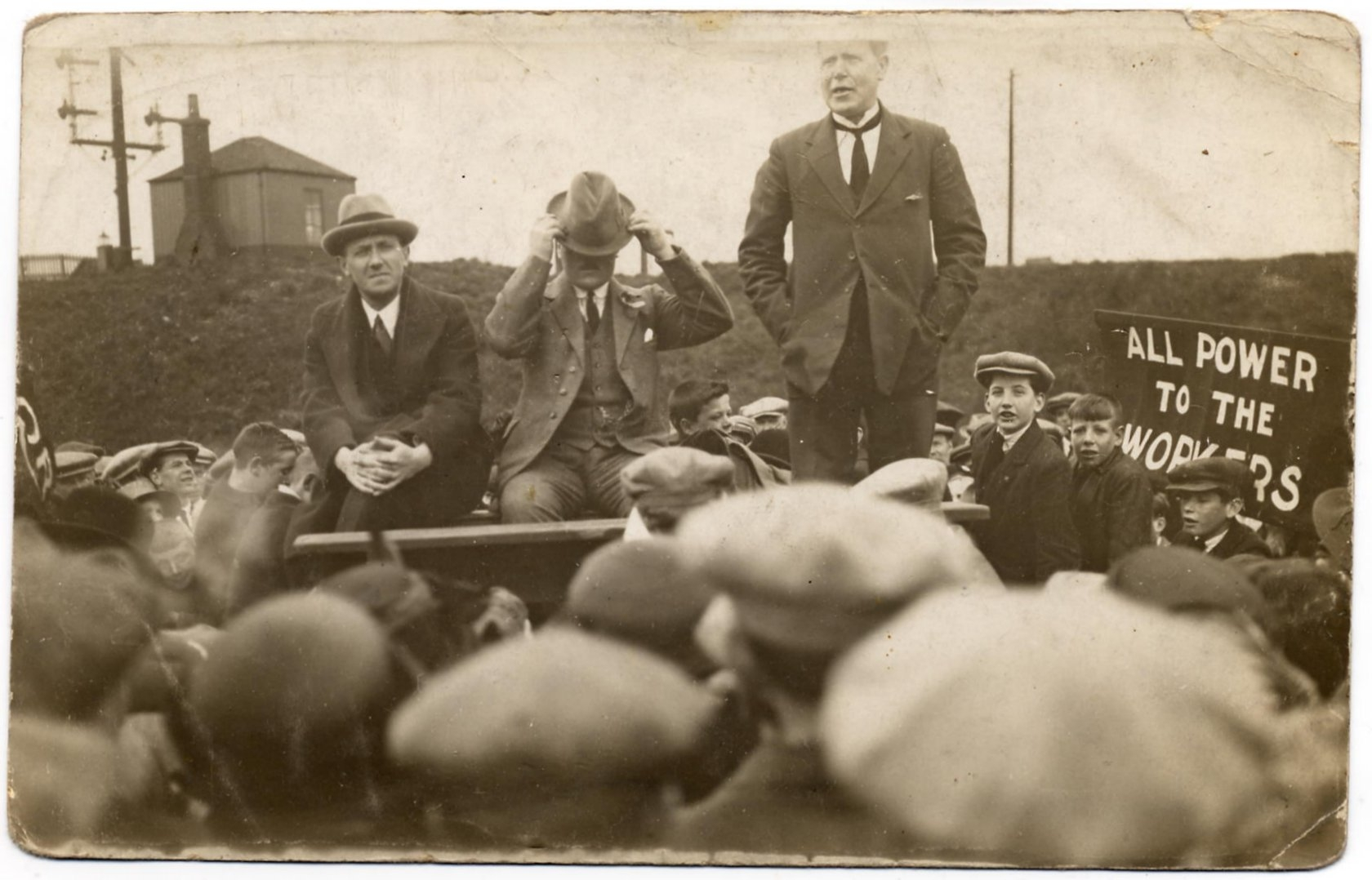 Emanuel Shinwell (1884-1986) (standing), socialist and Labour MP, with J Samond (agent) and Hugh M[?]nin (miners leader) at an election meeting in 1918. Shinwell was born in London, but moved to Glasgow with his family when he was 11. He was a socialist and campaigned with trade unions for the 40 hour week before being elected as Labour MP for Linlithgow in 1922. Shinwell served as financial secretary for the War Office in 1929, Secretary for Mines (1930-1931), Minister for Fuel and Power (1945-1947), Secretary of State for War (1947-1950), Minister of Defence (1950-1951) and was made a Baron in 1970. IMAGELIBRARY/1368 Persisten URL